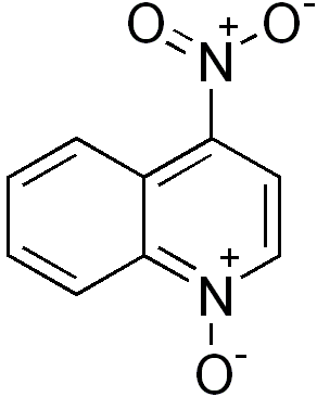 chemical structure of 4-Nitroquinoline 1-oxide (NQO)